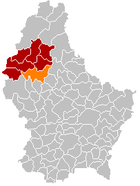 Esch-sur-Sûre municipality location (valid from 1 January 2012). Own edit of Kanton WiltzLocatie.png